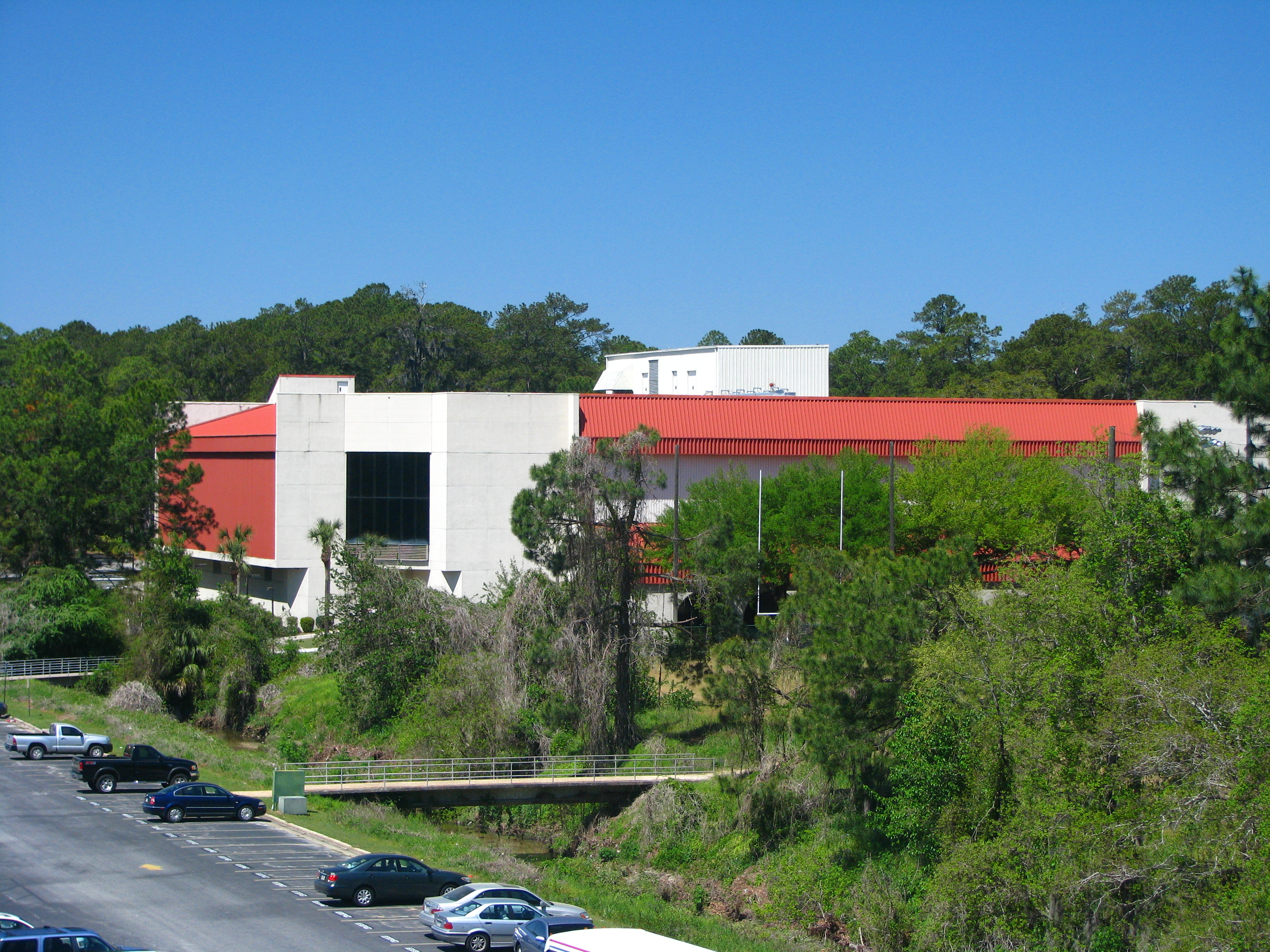 Valdosta State PE Complex, Footbridges in photo go across One Mile Branch (creek)